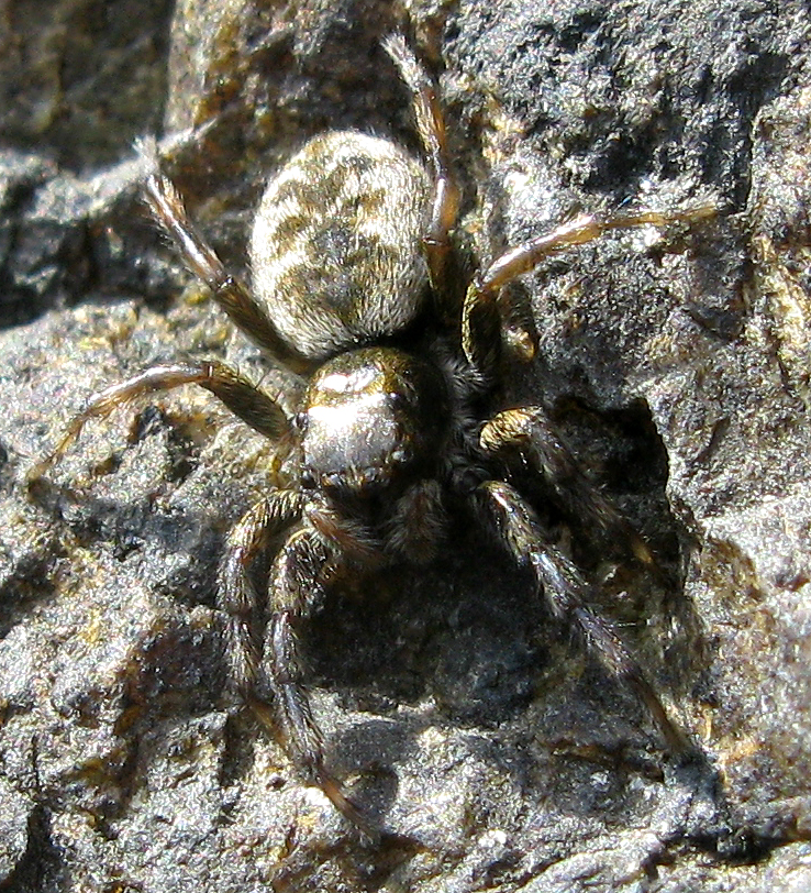 Family: Salticidae. Species: Hakka himeshimensis (Bösenberg and Strand, 1906). Immature male or female. Native to Asia. (Rockport, MA)